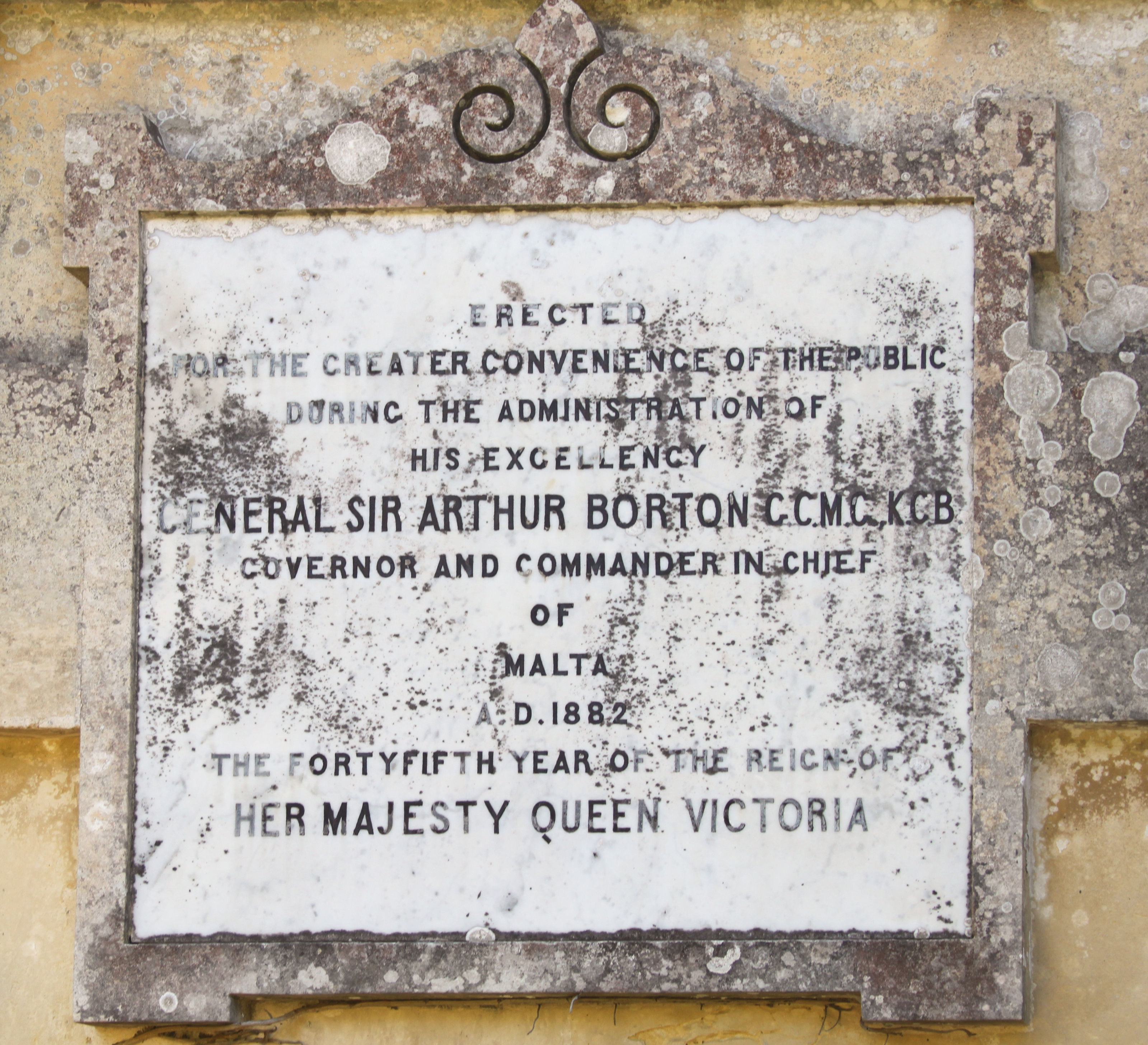 Memorial table of the opening of the public park at the San Anton Palace